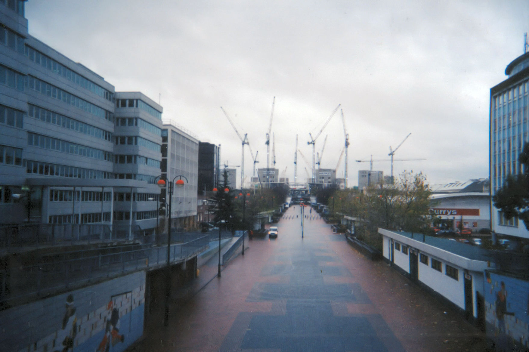 The second Wembley Stadium, looking down Wembley Way, in the very early stages of construction, with just the lift shafts being built. The stadium was completed and opened in 2007.